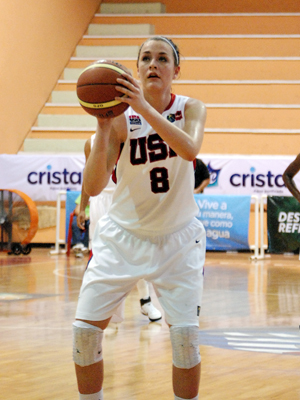 Rebecca Greenwell, member of the USA under-16 team, representing the USA in the FIBA Americas U16 Championship. She hit 4-of-5 3-point field goal attempts in the USA semi-final win over Puerto Rico, on 17 June 2011. The USA went on to win the gold medal the following day.